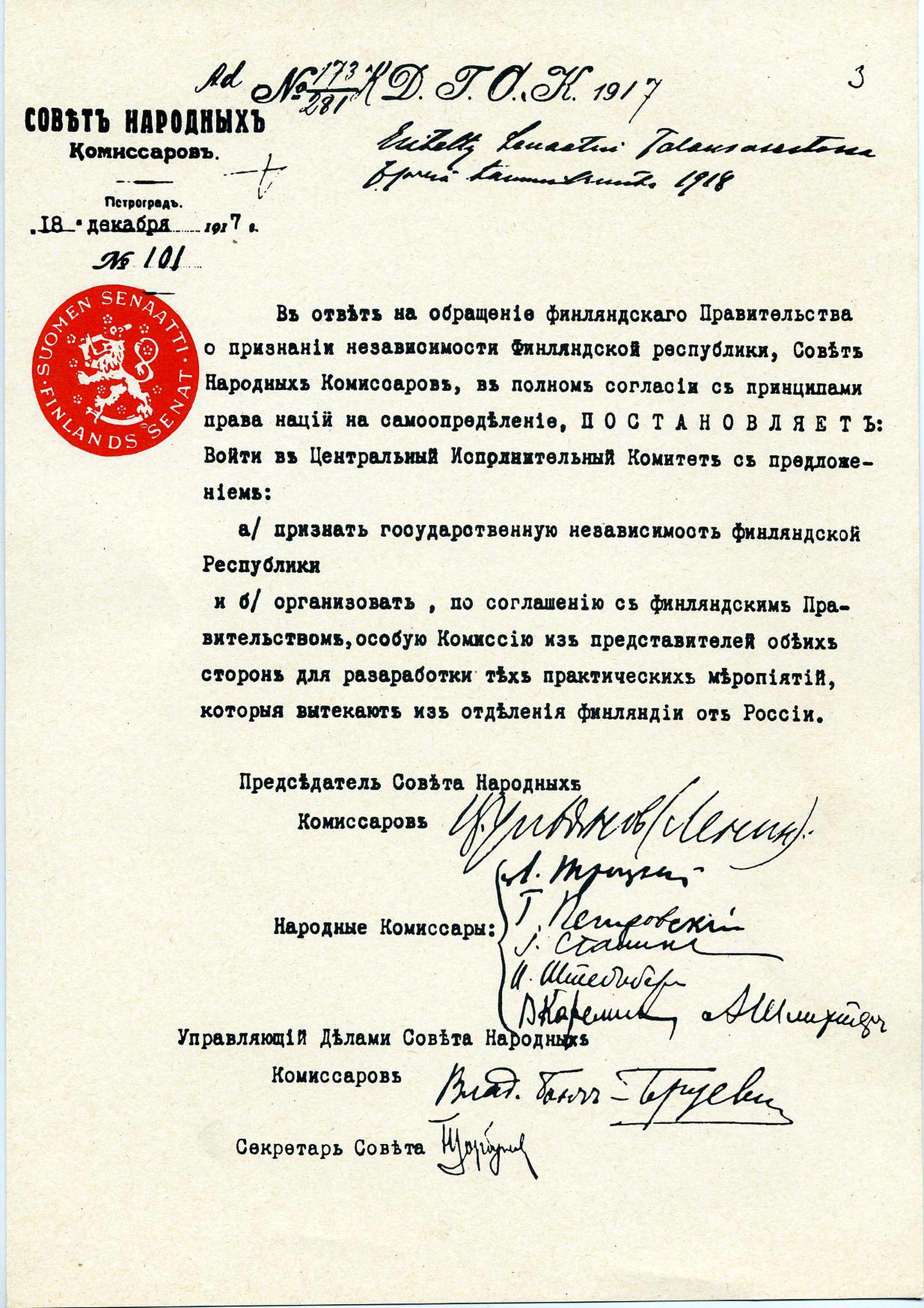 The Bolshevik government's recognition of Finnish independence was the first concrete expression of Lenin's demand for the right of nations to self-determination.